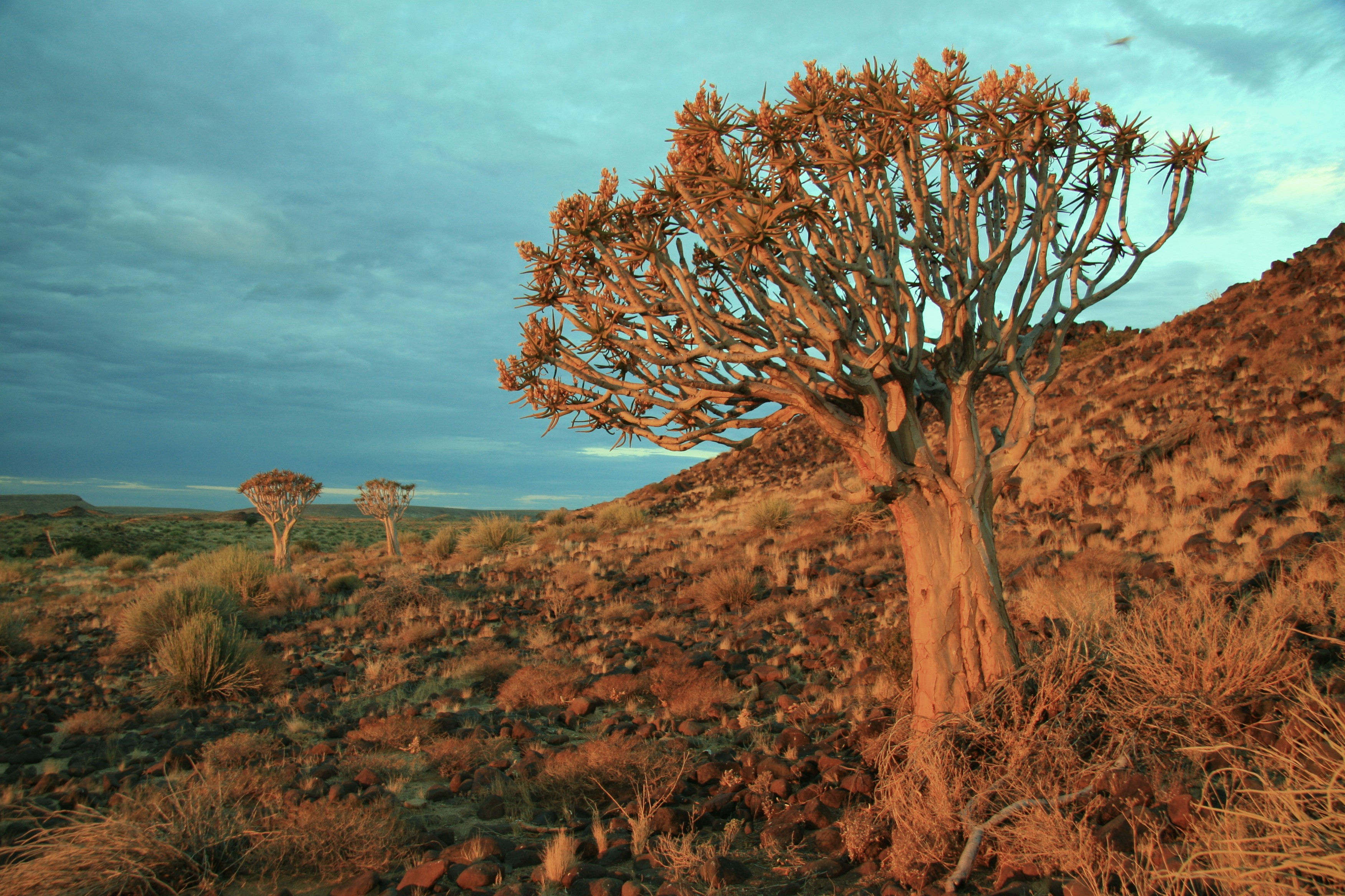 Tree-trail of Namibia. (Aloe dichotoma)